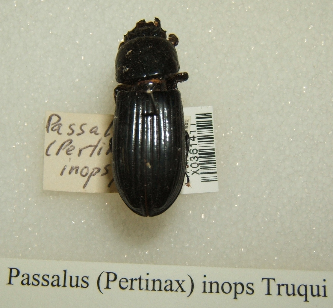 Passalus inops adult taken by Shawn Hanrahan at the Texas A&M University Insect Collection in College Station, Texas.